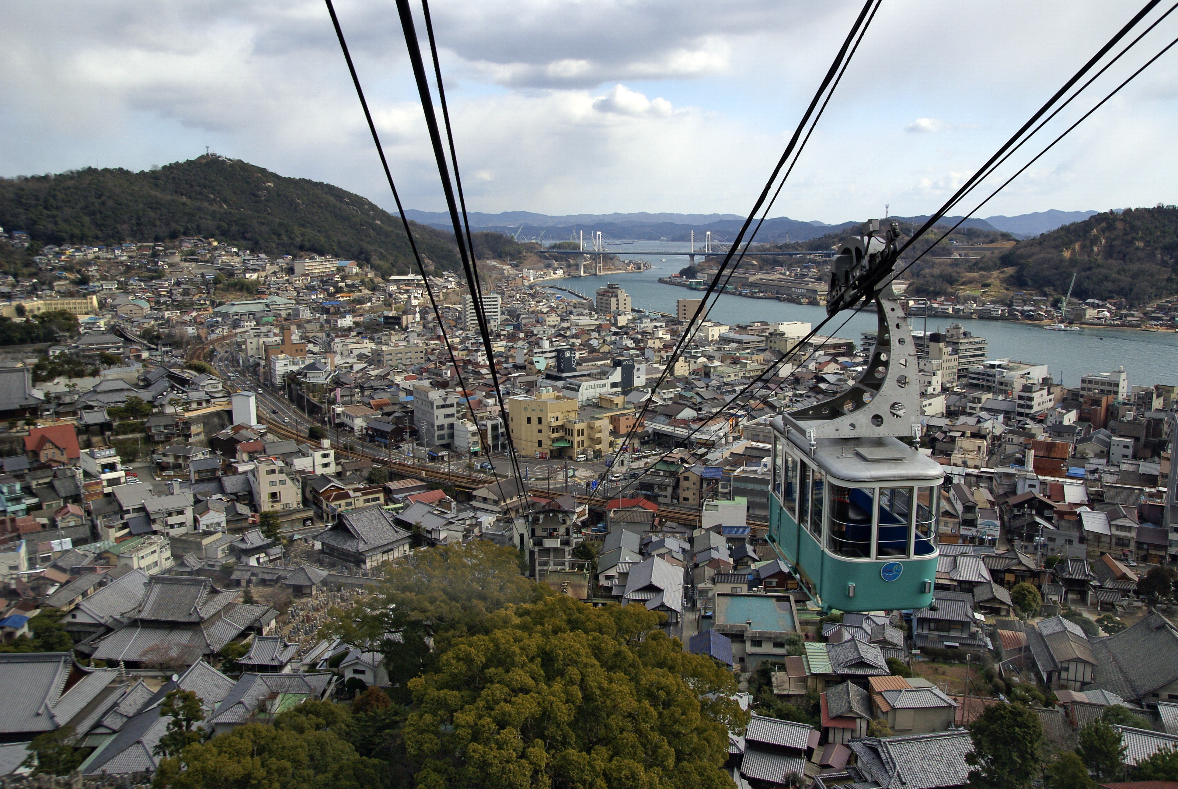 Senkojiyama Ropeway in Onomichi, Hiroshima prefecture, Japan